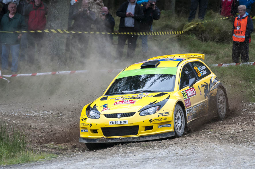 Wales Rally Great Britain 2012 Crychan 2,Emil Axelsson,Motorsport,PG Andersson,Proton Motorsport,Proton Satria Neo S2000,Rally,Rallye,SS10,WP10,WRC,Wales Rally GB